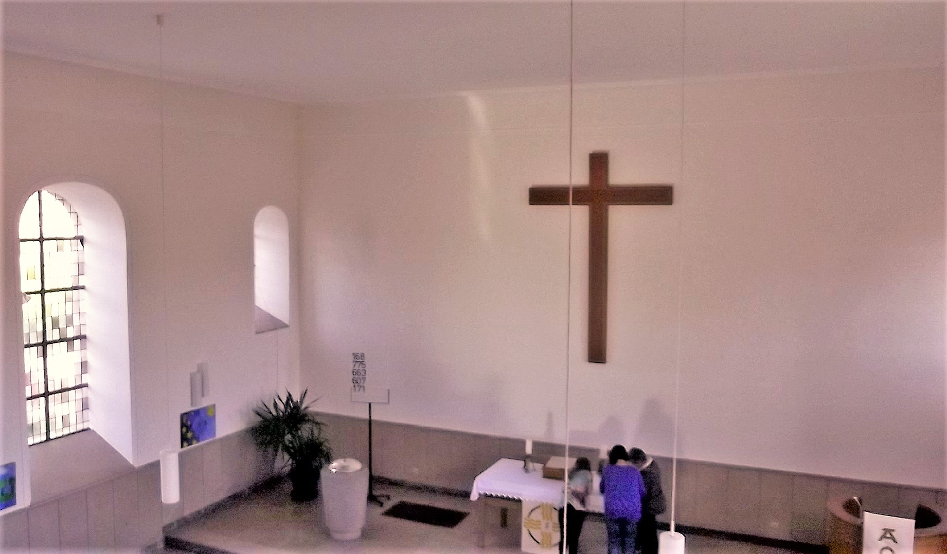 Interior of the protestant church in Werschweiler, Saarland, Germany